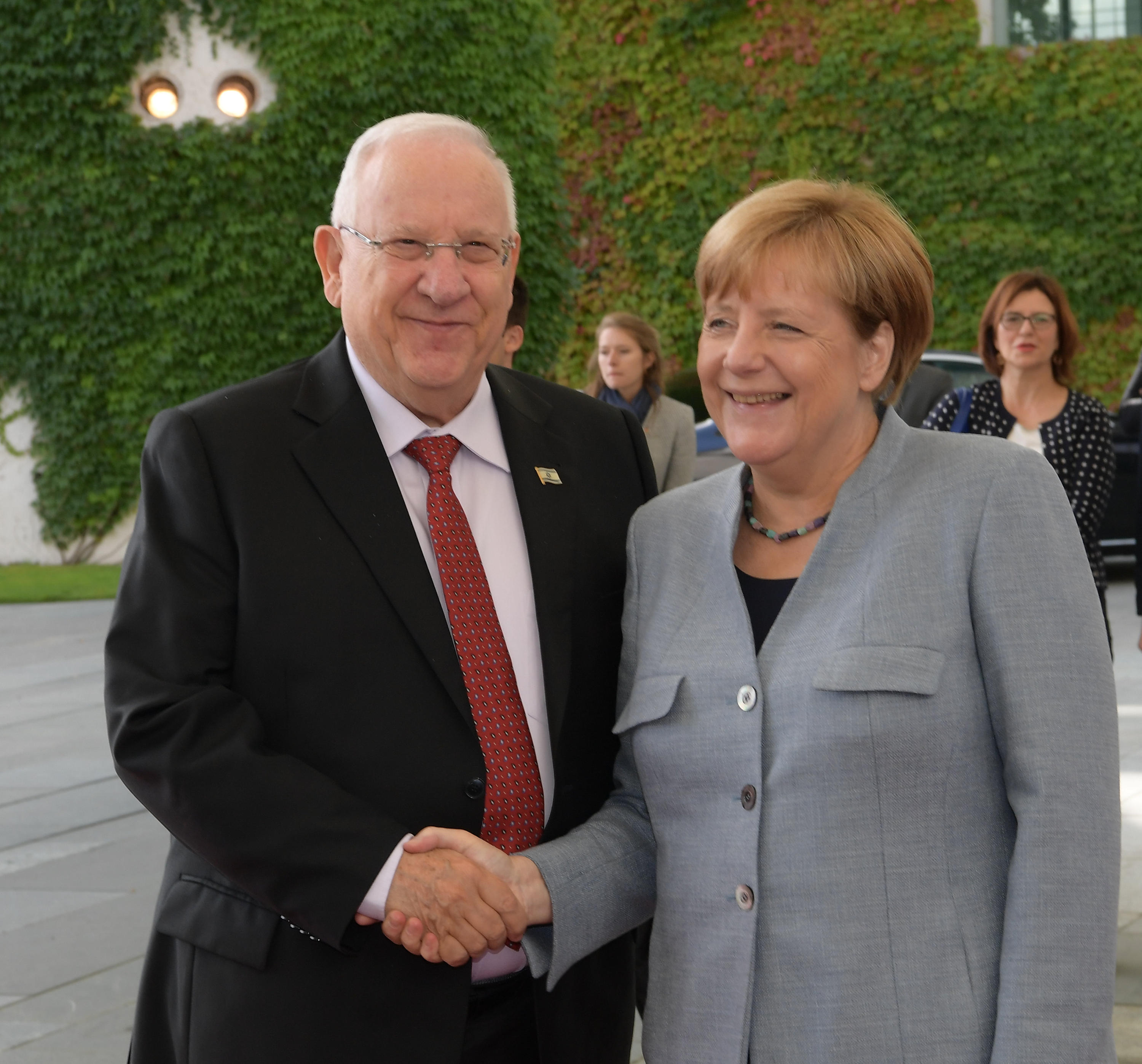 Reuven Rivlin at a meeting with Angela Merkel on Thursday, September 7th, Elul, September 7 th.